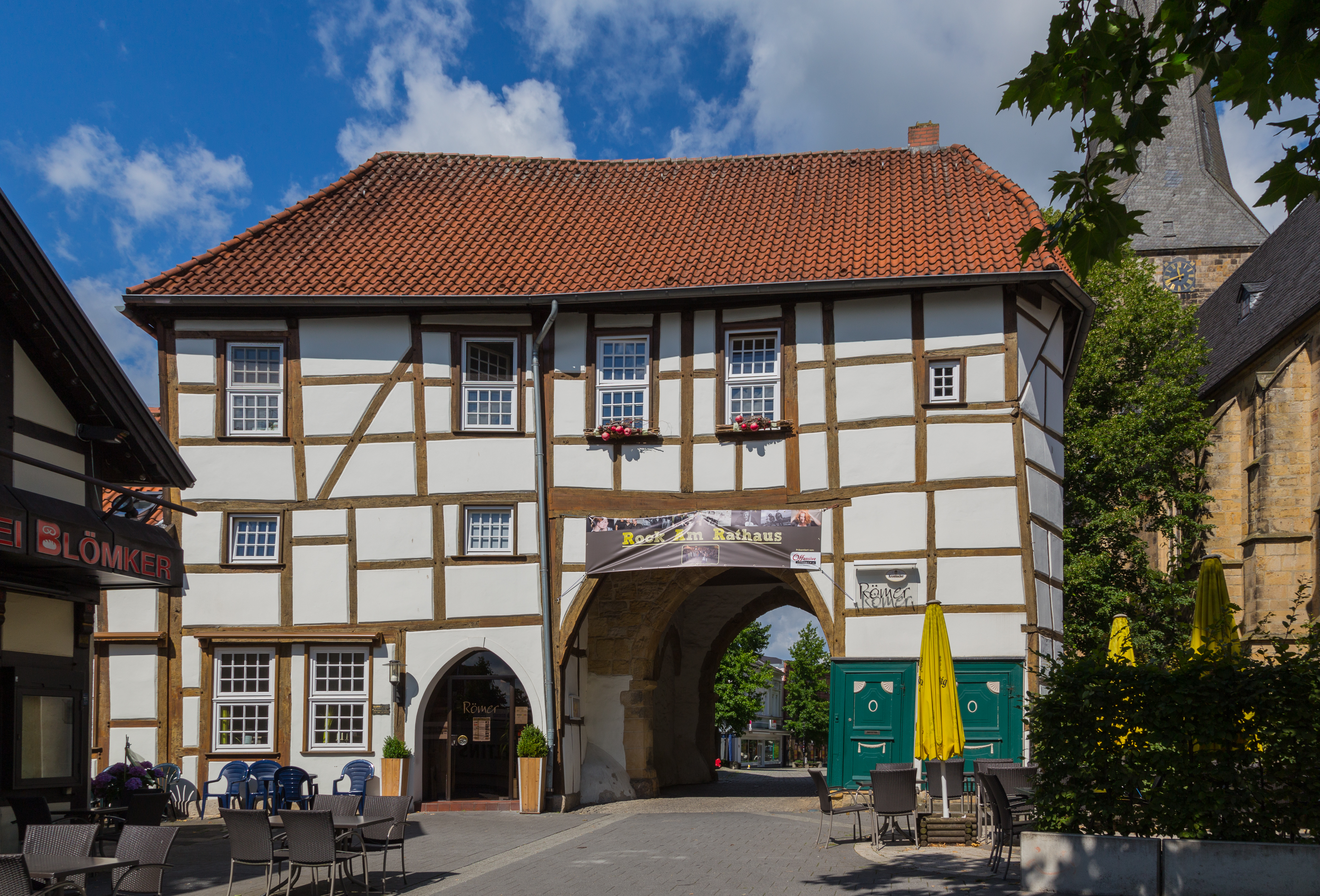 The gatehouse Römer in Lengerich, Kreis Steinfurt, North Rhine-Westphalia, Germany.